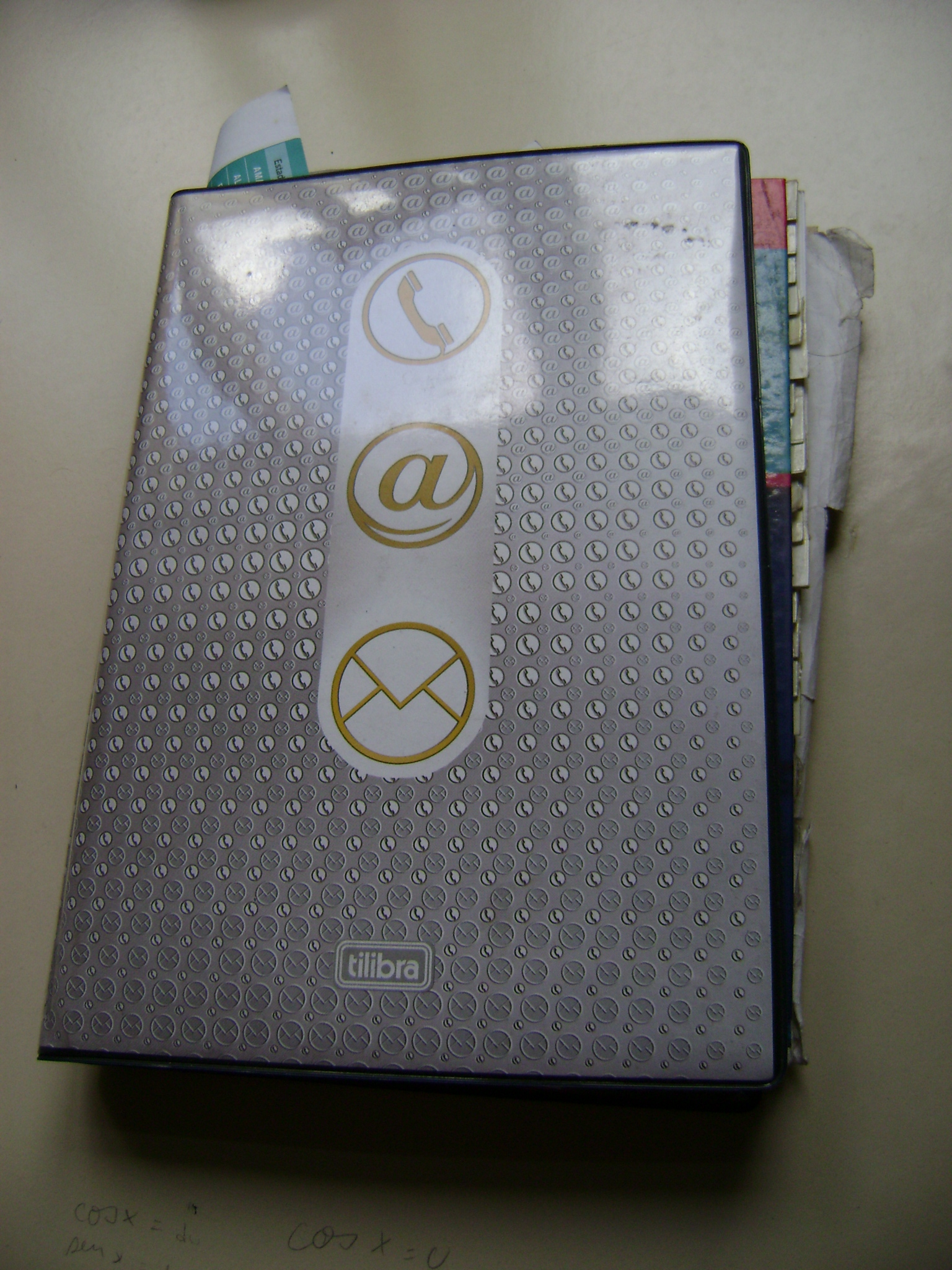 Personal organizer